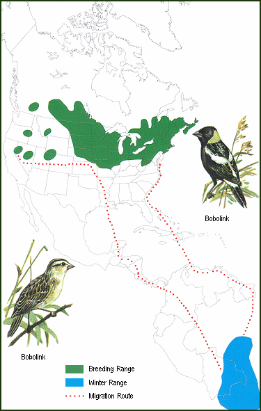 Migration route of the Bobolink (Dolichonyx oryzivorus)